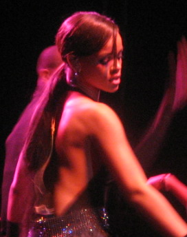 Rihanna in Jingle Ball, presented by WNCI